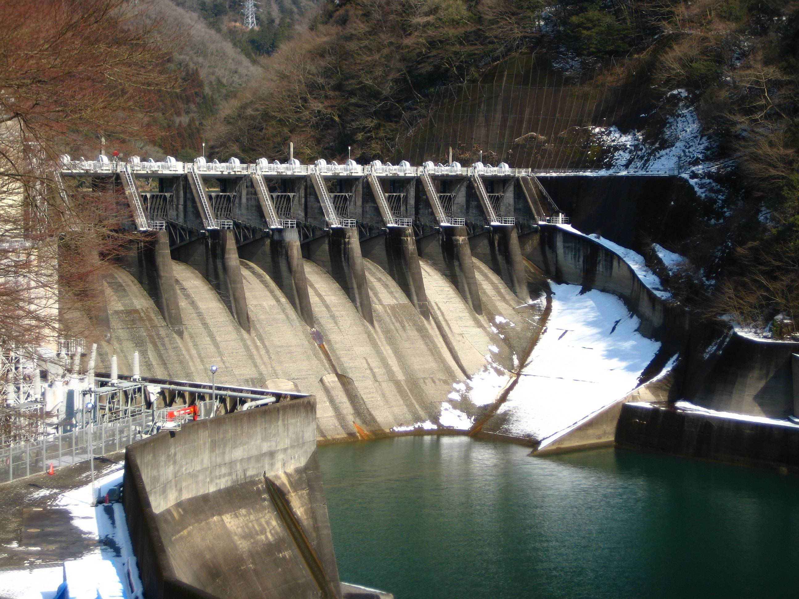 Kasagi Dam.